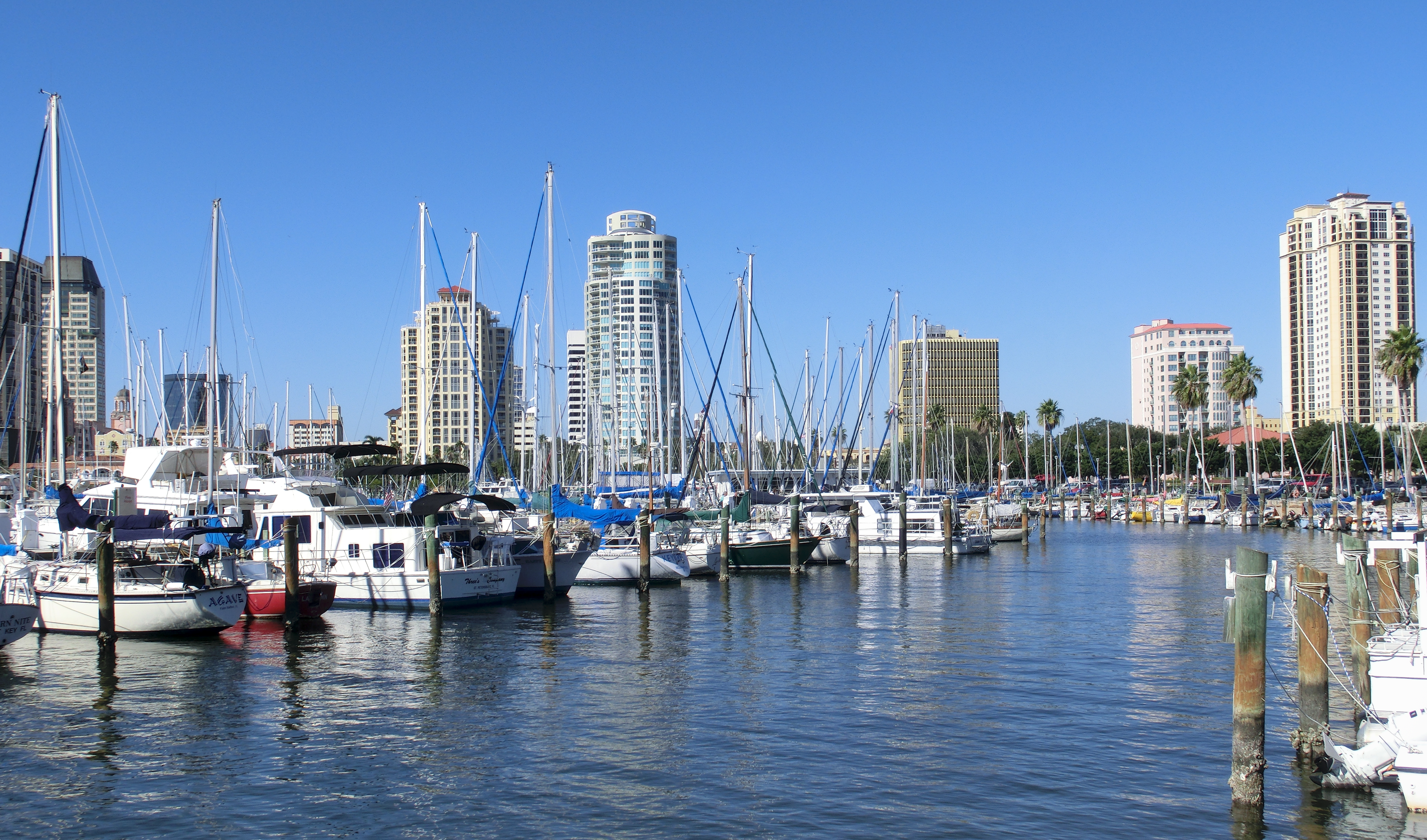 Downtown St. Petersburg Florida from Marina